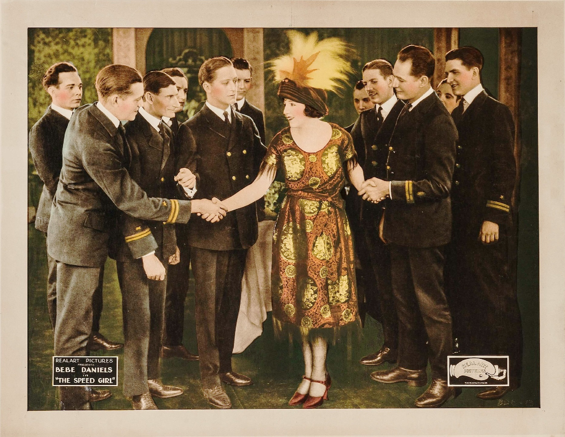 Poster for the 1921 film The Speed Girl.